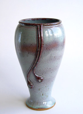 A ceramic vase created by Michael Anzengruber.